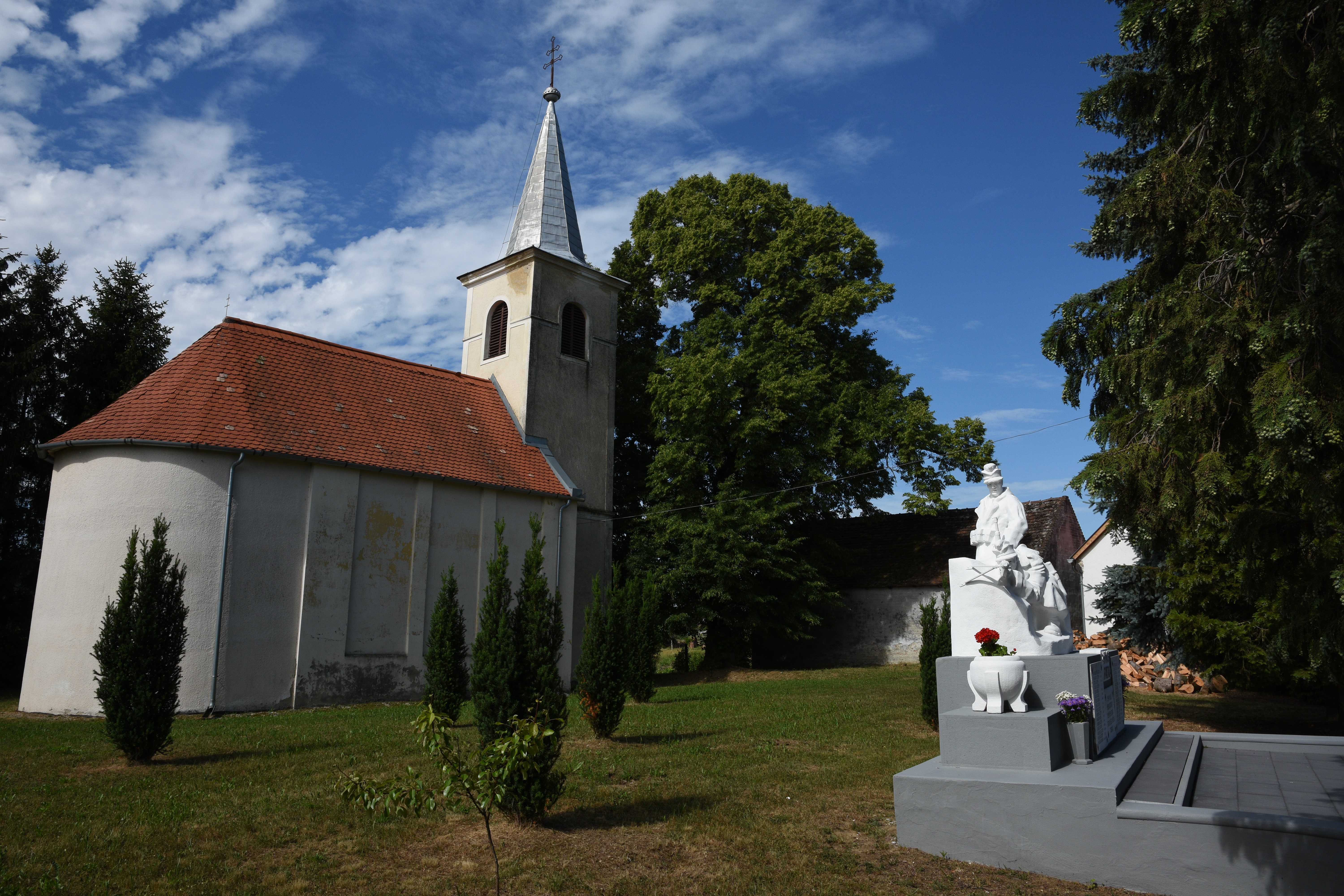 Zalamindszenti r. k. kápolna Zalalövő, Petőfi Sándor utca 98